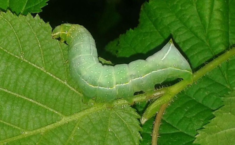 Amphipyra pyramidea caterpillar, Frankfurt am Main, Germany